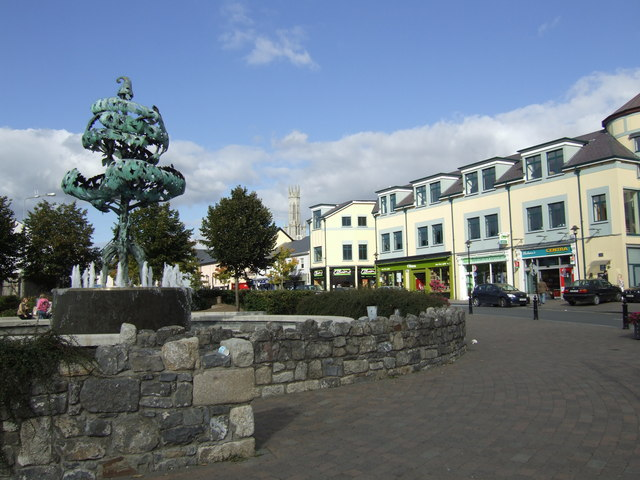 The Liberty Tree and Carlow town centre.